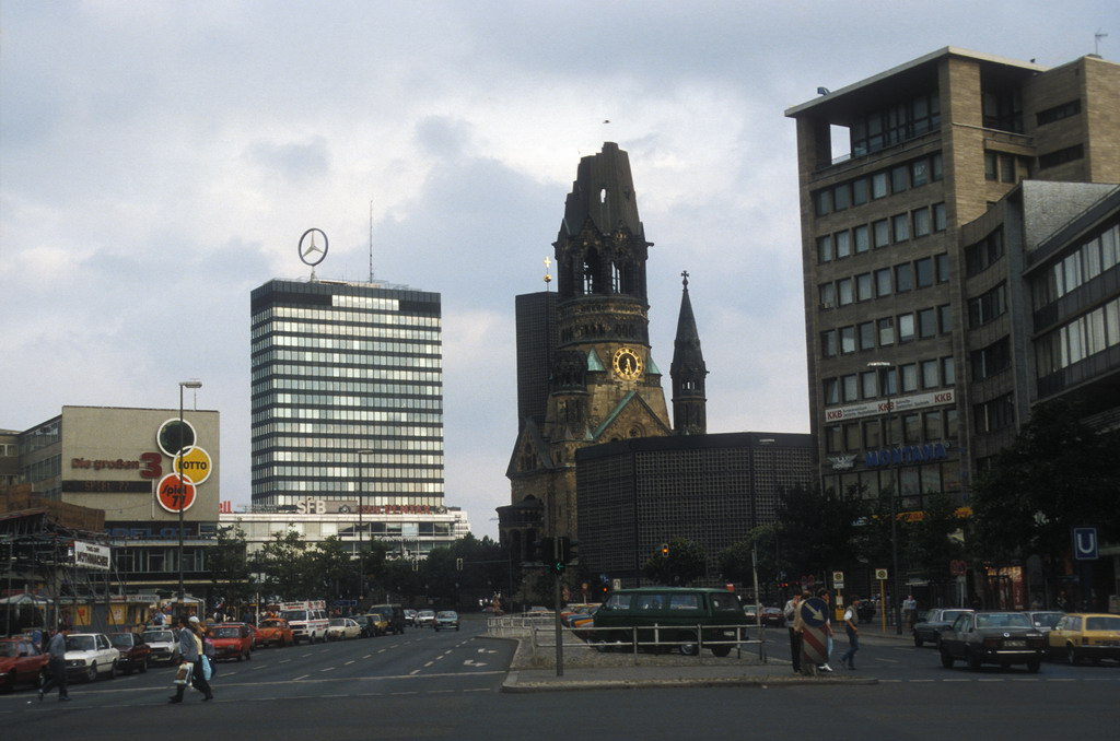 A view from Berlin Zoologischer Garten Railway Station in 1985